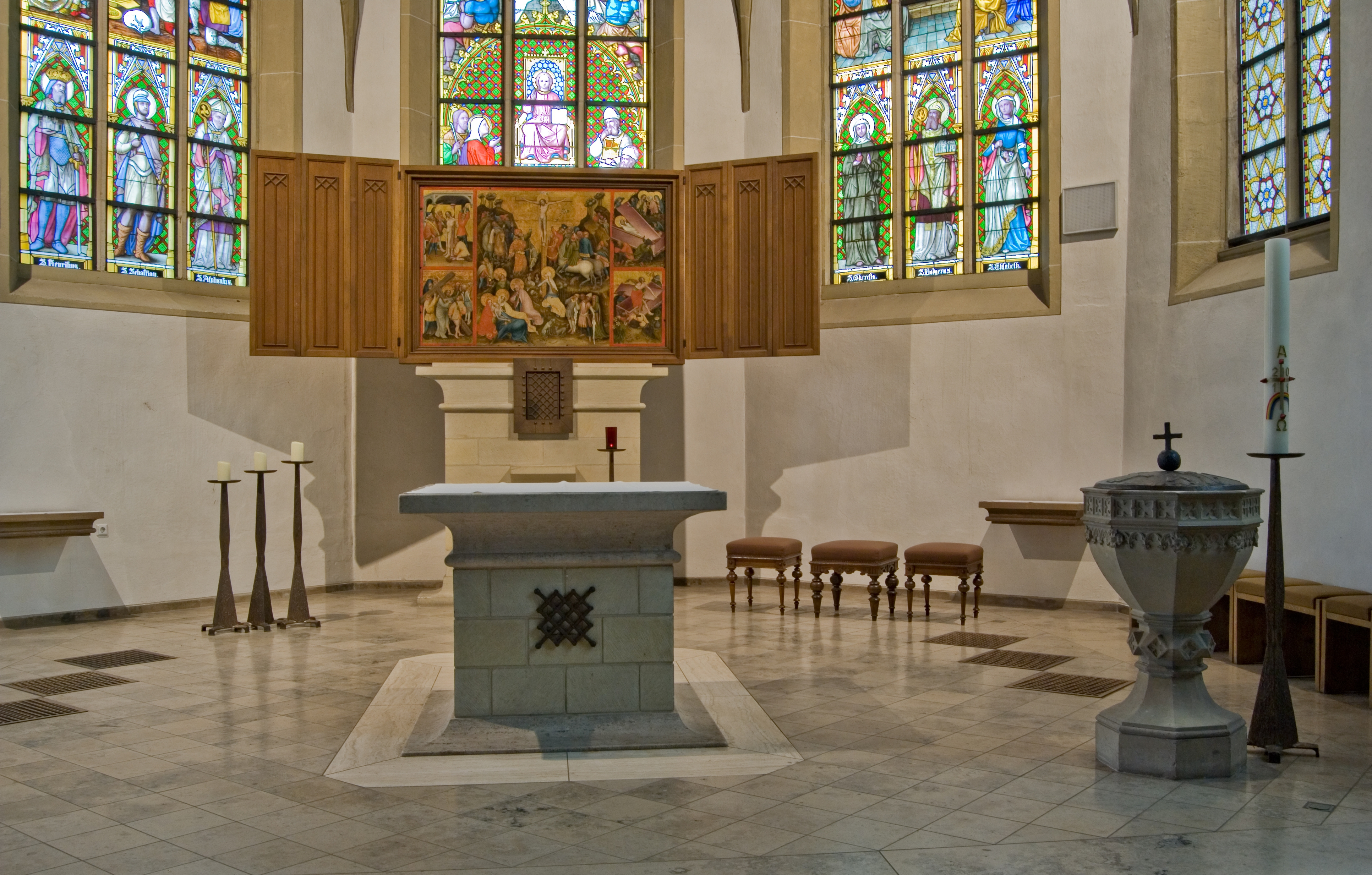 Nottuln (North Rhine-Westphalia, Germany) – district Darup – Catholic Saints Fabian and Sebastian Church – the choir with the altar, the baptismal font and several stained glass windows This photograph was taken with a Nikon D3000